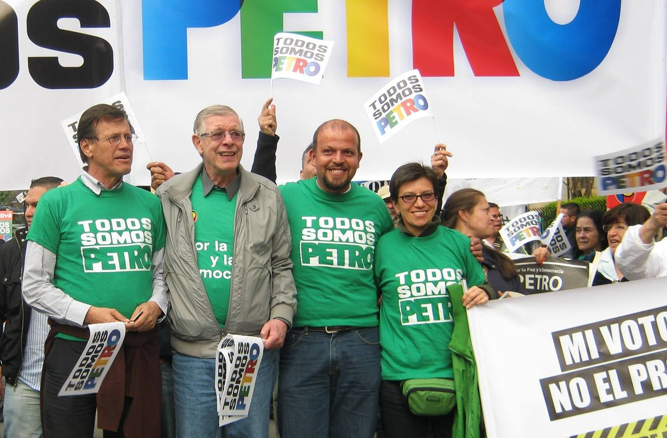 Yezid acompaña a Petro